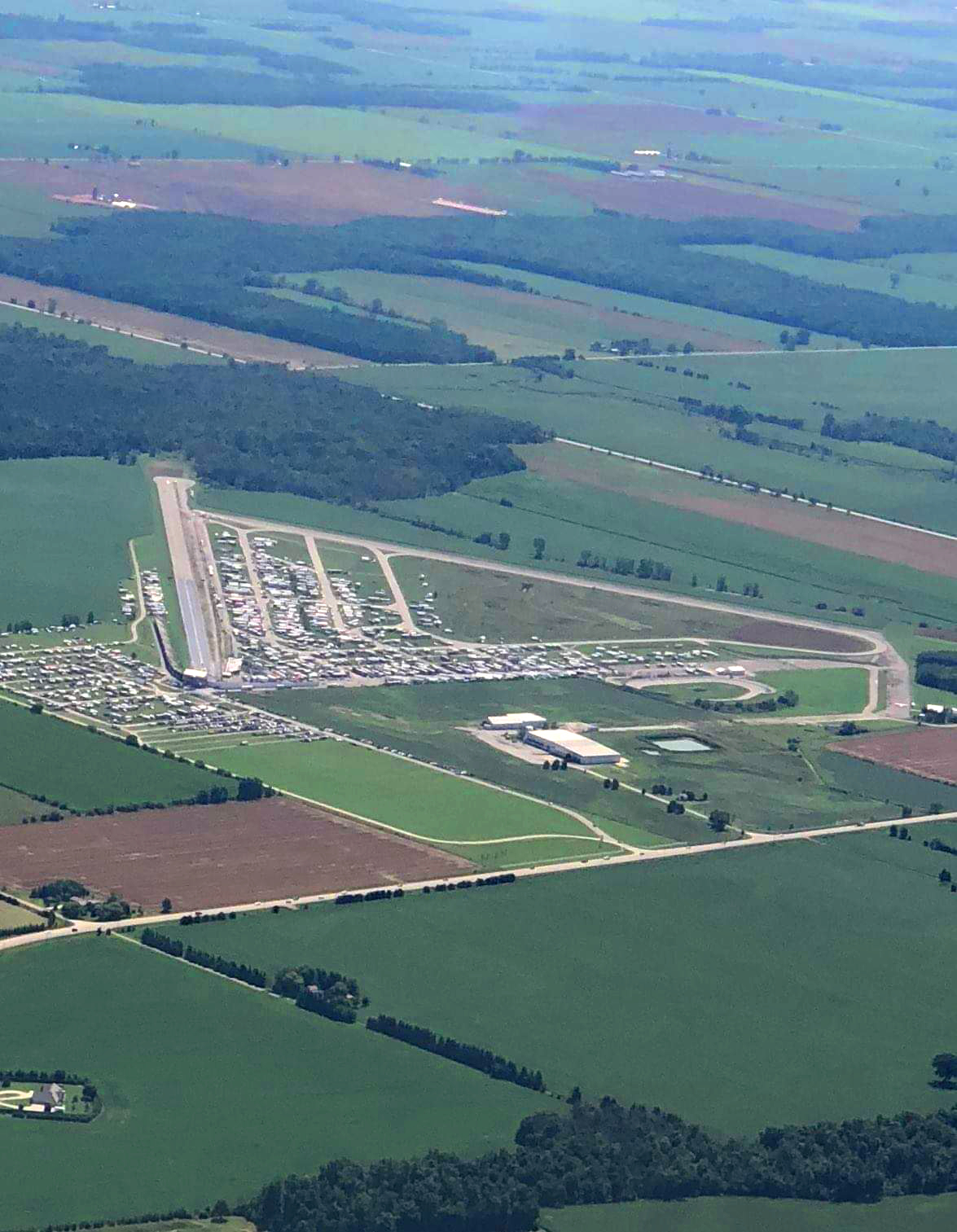 This is an aerial picture of the "Grand River Motorplex", an automotive drag strip near Grand Bend, Ontario, Canada. The Motorplex is a reuse of the Royal Canadian Air Force airfield that was built in 1942 for the British Commonwealth Air Training Plan. The triangular pattern of the original three runways is clearly visible, as is the hangar (the rectangular building at the bottom of the frame). The runway on the far side is still used by light aircraft. The view is towards the southeast, heading 130 degrees, looking down runway 13/31. The photo was taken by Duncan Almond, flying a Cessna 172R aircraft C-GGPO, using an IPhoneX.